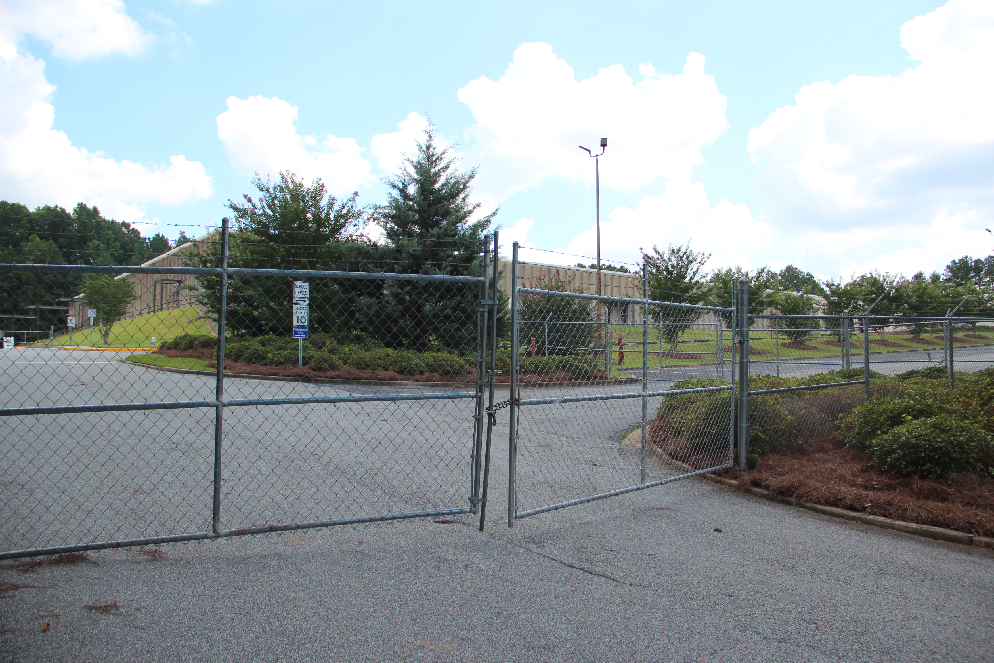 GIVE Center West, Norcross